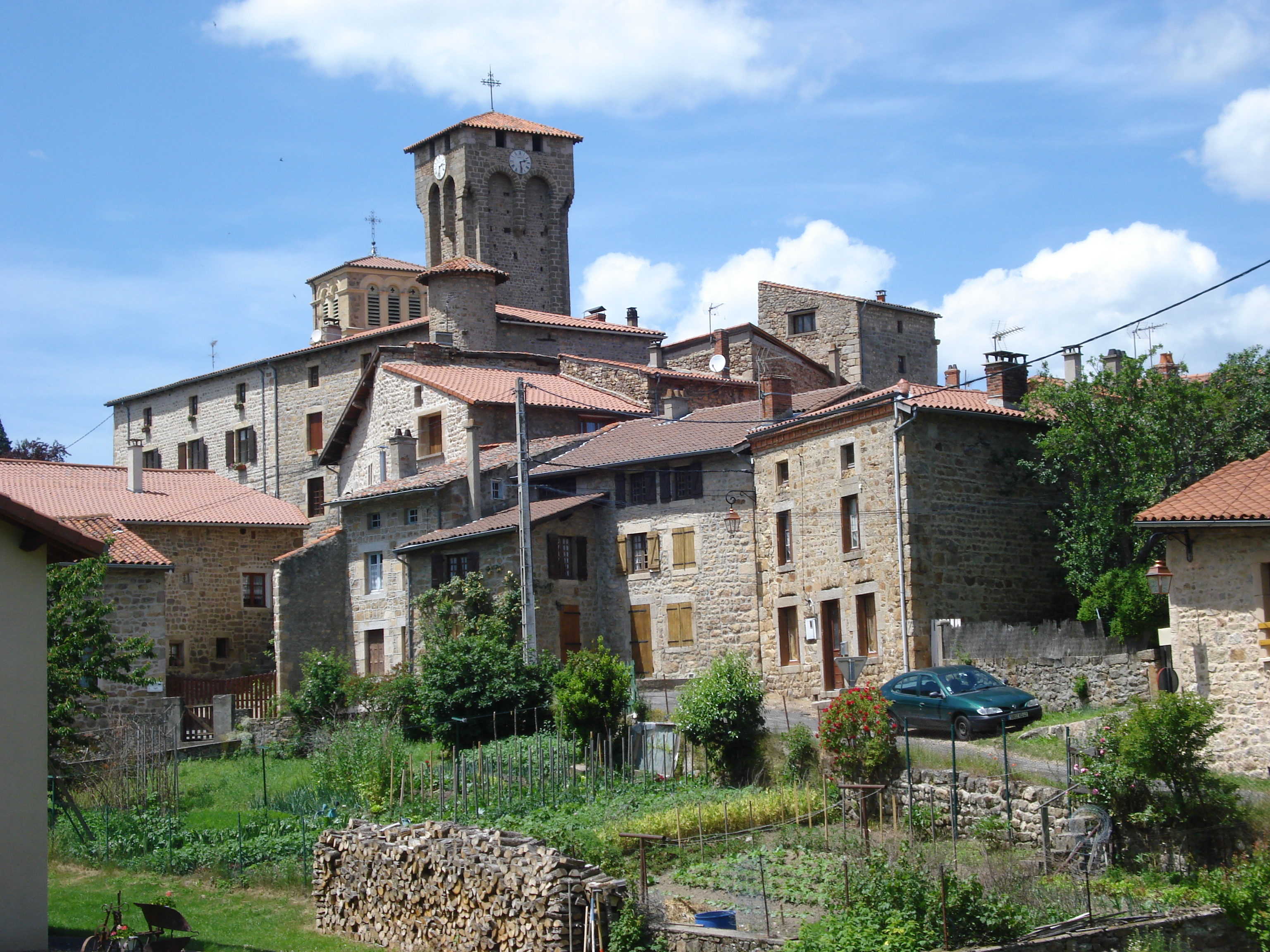 Marols (Loire, Fr), village and fortified church